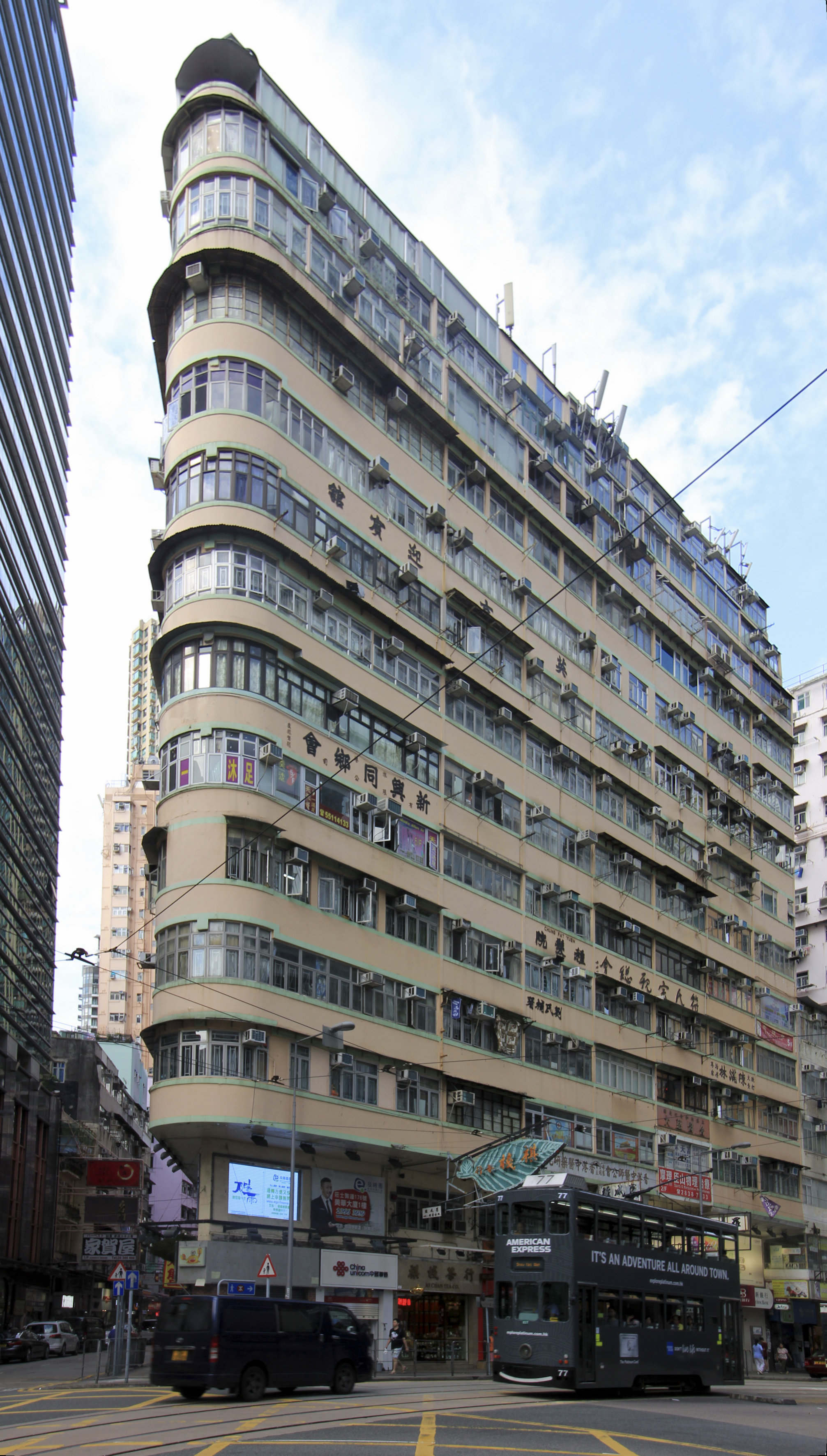 May Wah Mansion is a composite building in Hong Kong built in 1963. It was located at the intersection of Johnston Road and Wan Chai Road in Wan Chai, Hong Kong Island.